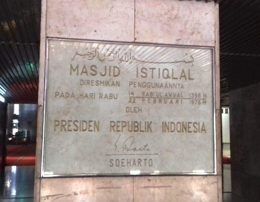 This inscription is located on the main floor in the direction of entering the As-Salam Door Istiqlal Mosque